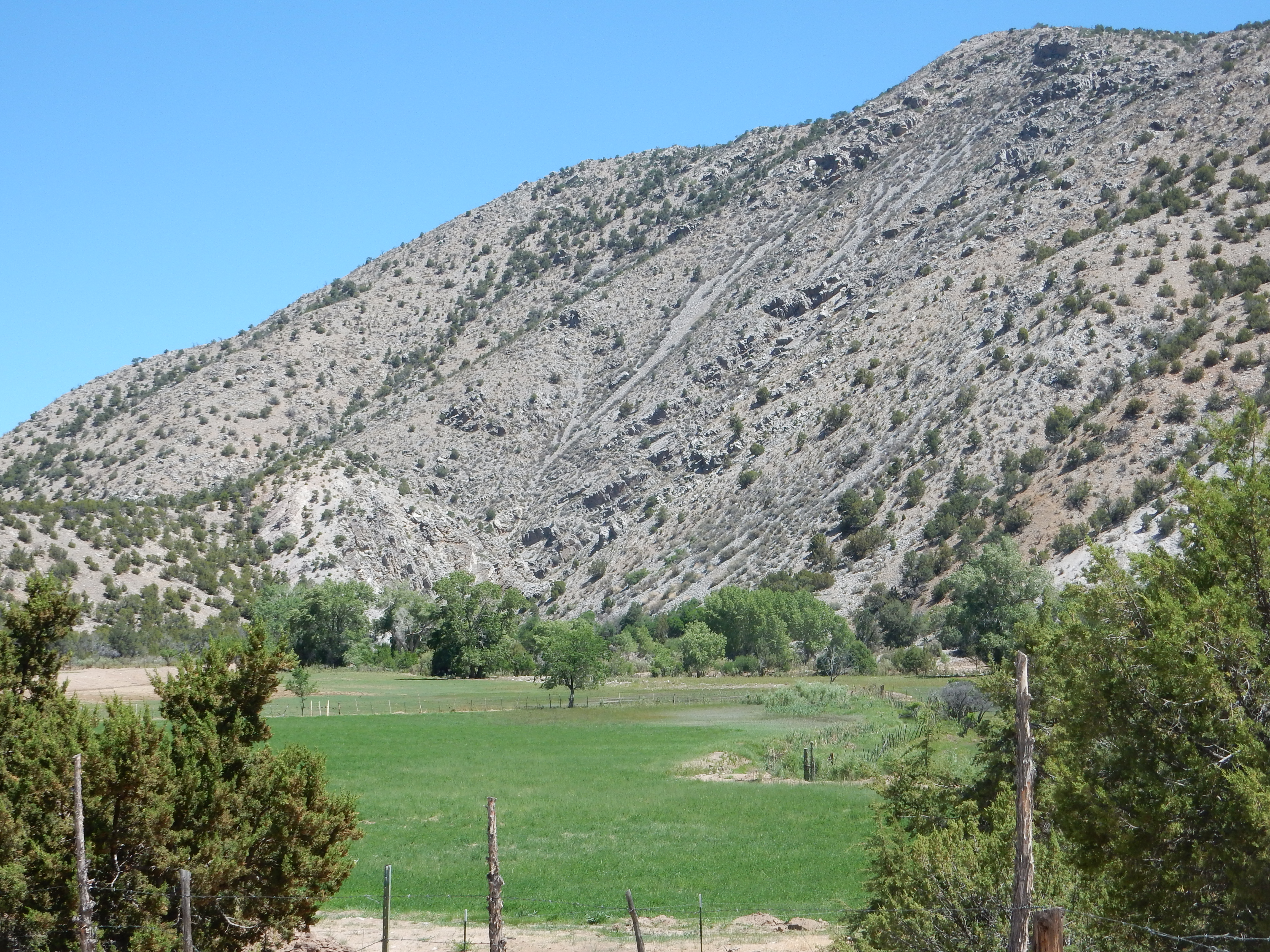 This image is of a mountain face underlain by the Ortega Formation, a Precambrian quartz, above the Rio Vallecitos northwest of Lamadera, New Mexico, United States